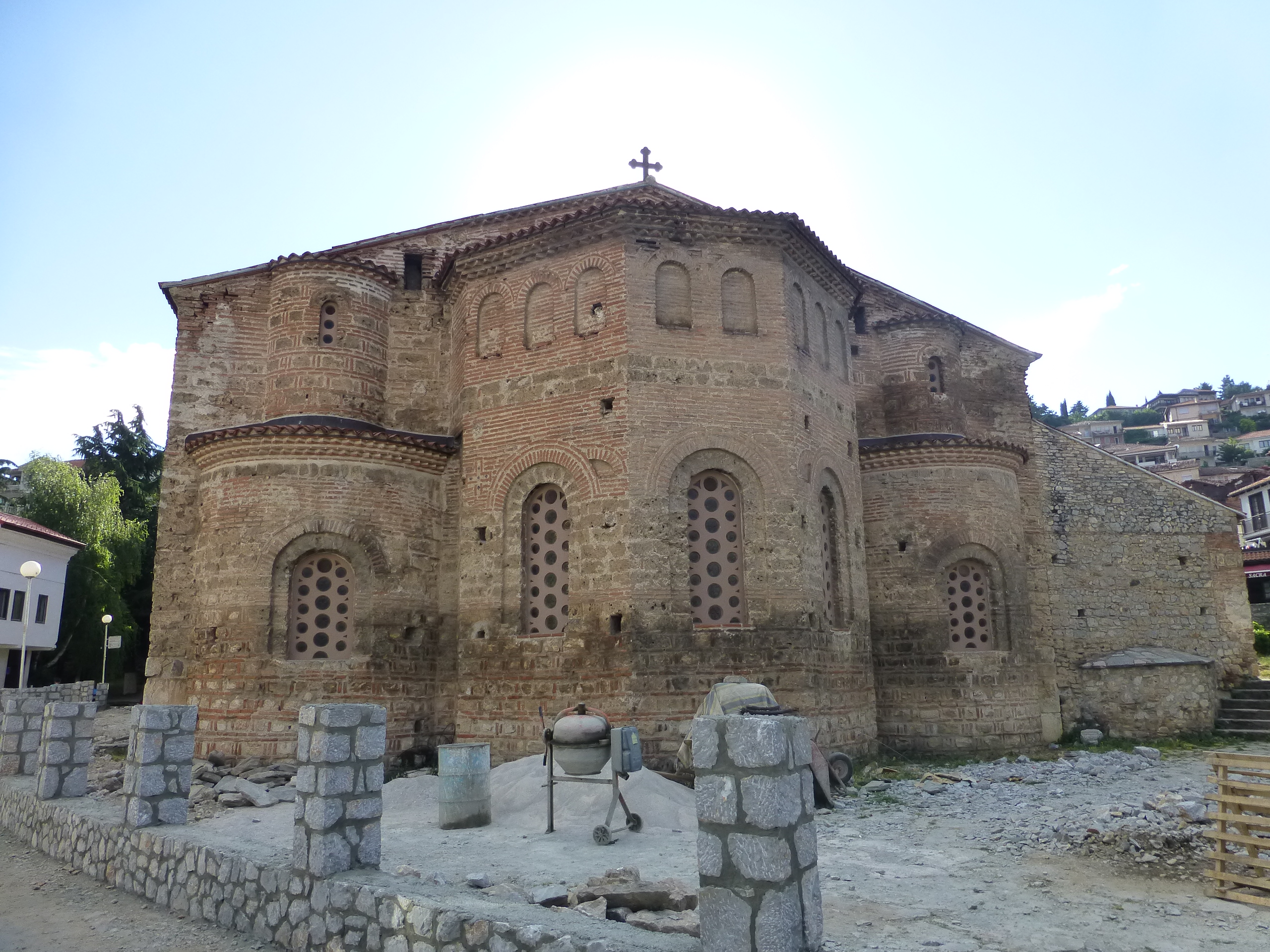 St. Sophia Church (Ohrid)